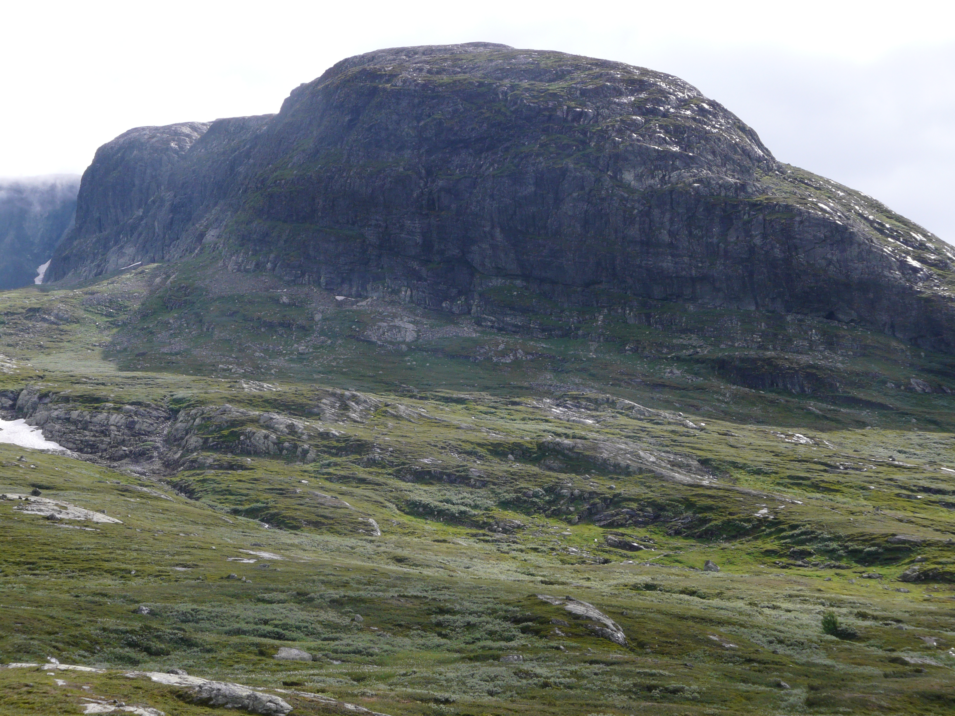 Bitihorn in Norway